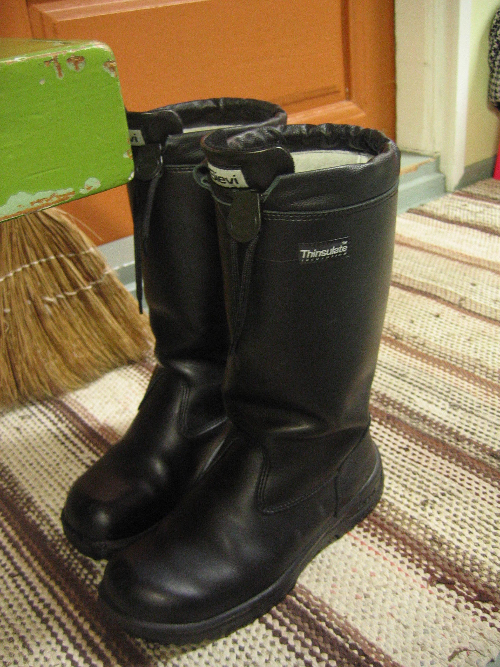 Finnish made outdoor working shoes with insulation for winter-time usage.